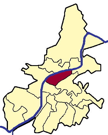 Trier suburbs